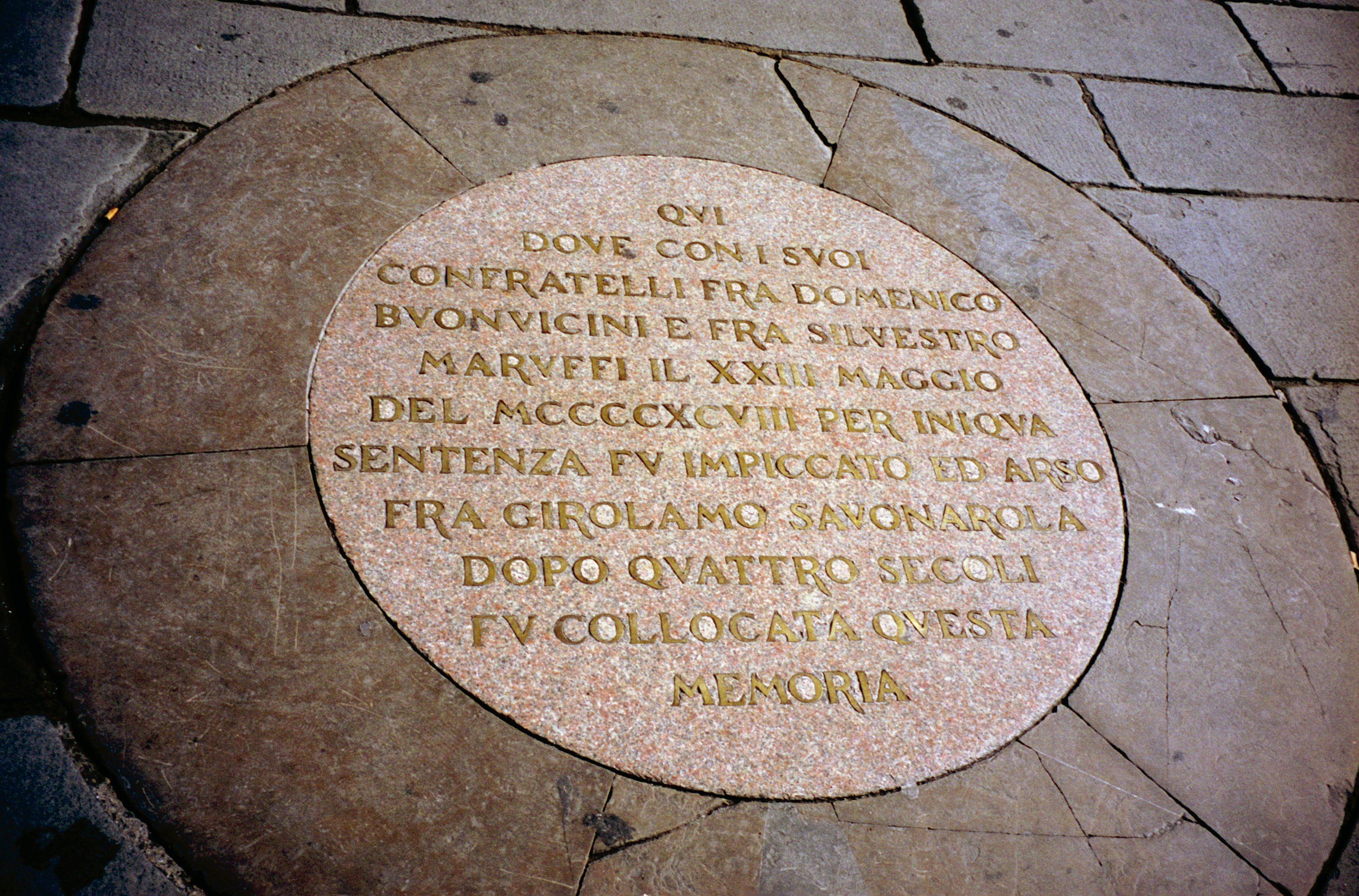 Plaque commemorating the spot where Girolamo Savonarola was executed in the Piazza Della Signoria, Florence.